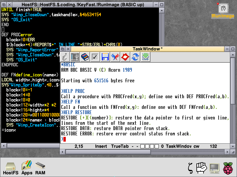 BBC Basic Statup under RISC OS in a so called TaskWindow and a BASIC Programm with SyntaxColouring shown in a window of !Zap, the programmers editor